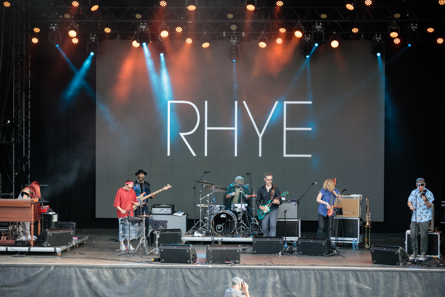 Rhye at the Vigeland stage in the Vigeland Park. The concert was part of Piknik i Parken and took place on 16. June 2018 in Oslo. Lineup:Mike Milosh (vocal)Unidentified (organ)Unidentified (bass guitar)Unidentified (drums)Unidentified (guitar)Unidentified (fiddle)Unidentified (fiddle)